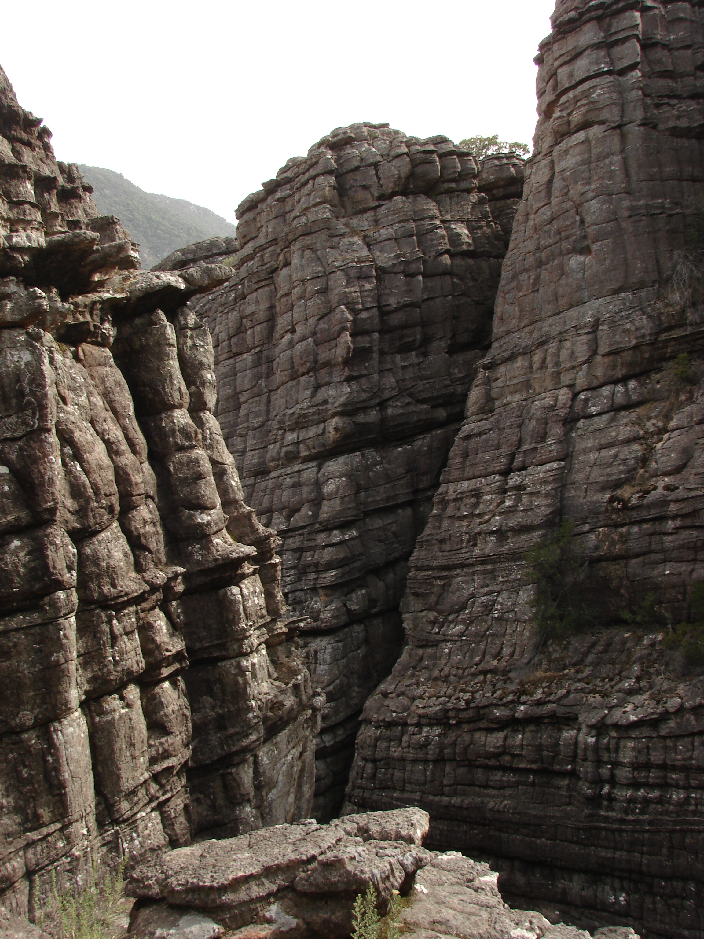 The Grand Canyon, Grampians National Park, Victoria, Australia